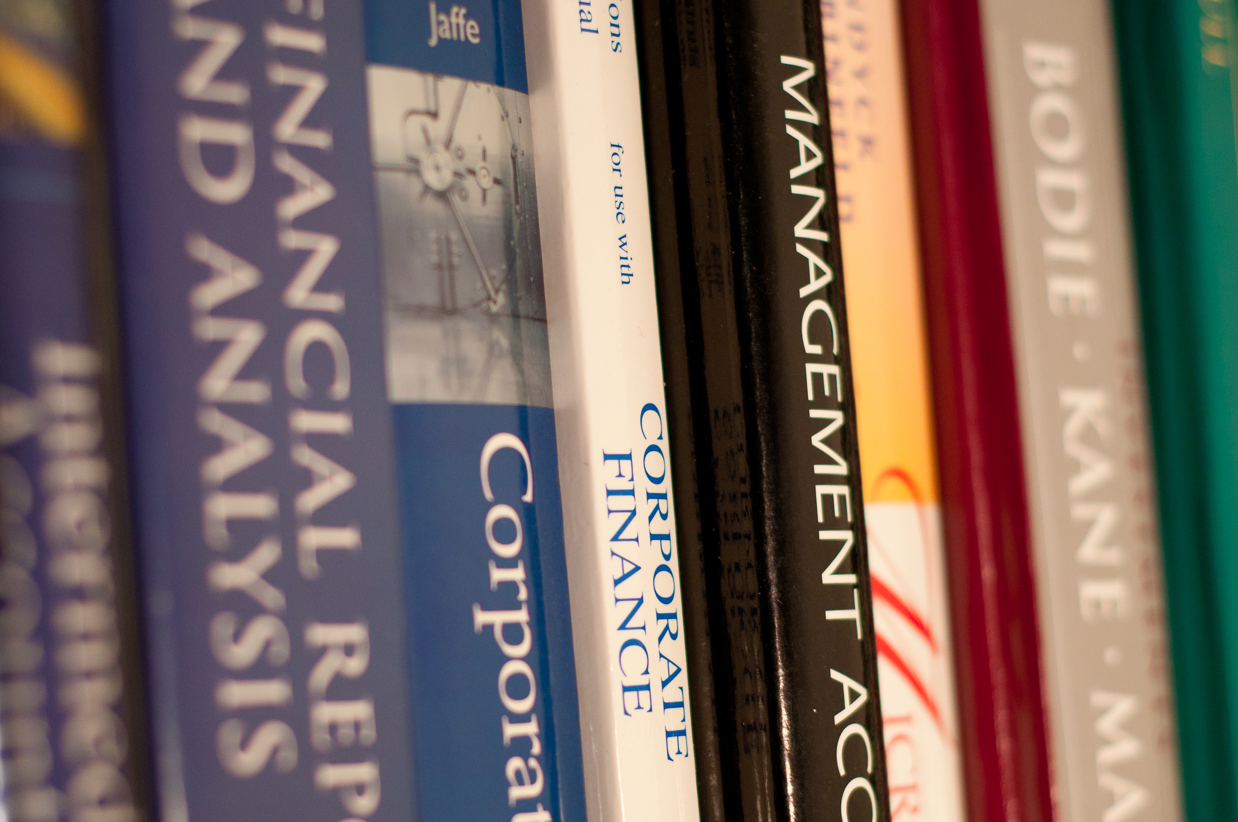 Day 74: For some reason, I can't throw away my old textbooks. I foresee the possibility that one day I'll have to reference an old textbook to refresh myself on some forgotten topic. Unlikely, I know, since this hasn't ever happened. Still, I can't throw my textbooks away. Ever since I was a small child in grade school, I've held textbooks in such high regard. That's why when I was in college, I could never bring myself to highlight in any of my books or even resell them. I've never even dog-eared my books. I'm weird that way, I guess.